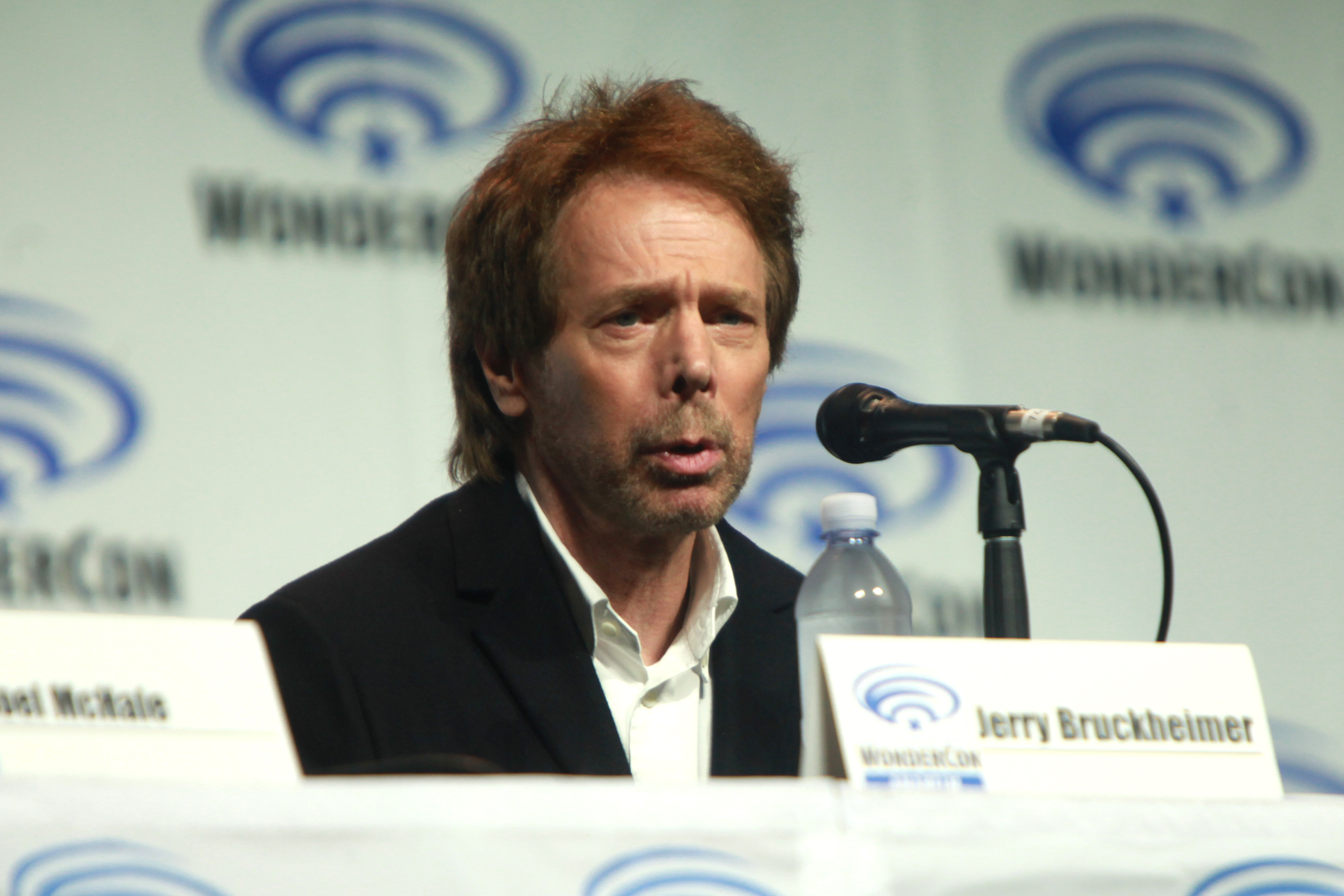 Jerry Bruckheimer speaking at the 2014 WonderCon, for "Deliver Us from Evil", at the Anaheim Convention Center in Anaheim, California.